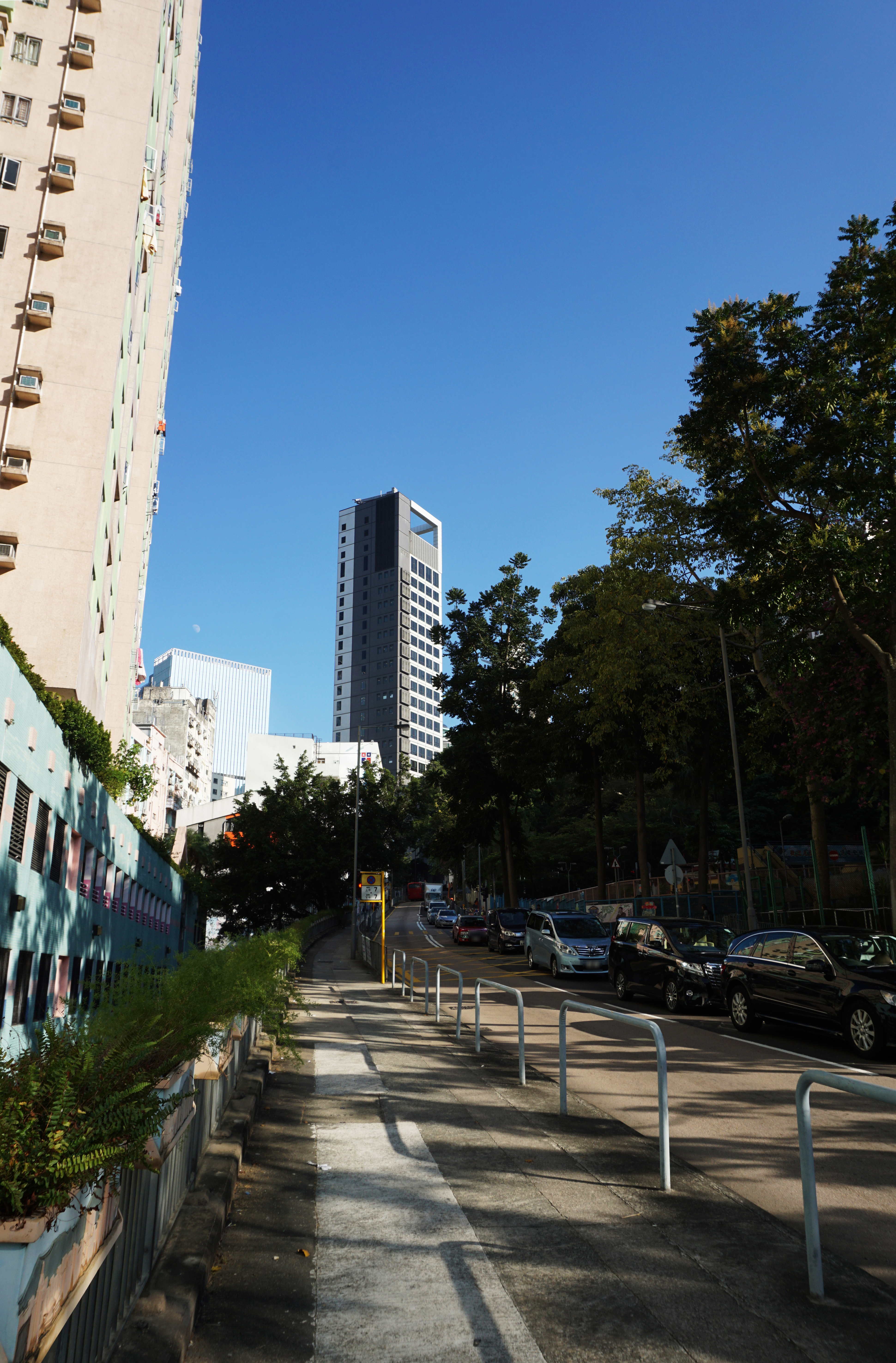 Pak Fuk Road in North Point, Hong Kong.